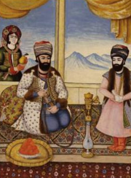 The courtroom of King Ali Murad Zand. Ali Murad is close to the middle of the image with his son Prince Sayed Murad Zand at the right. An unnamed Princess can be seen at the left